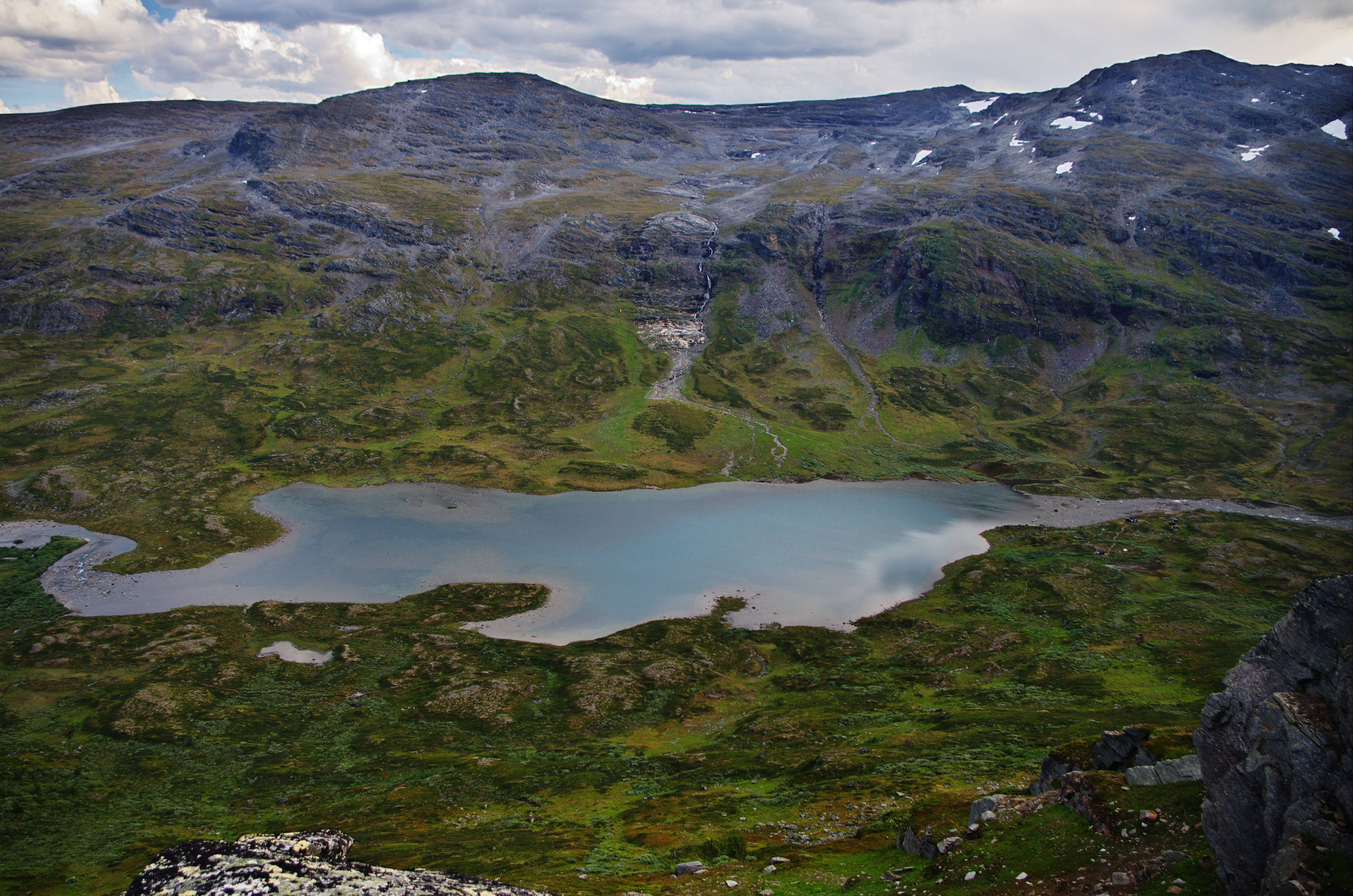 Kaskamus Kårsavaggejaure (Gaskkamus Gorsajávri): Lake in Lappland, Sweden.